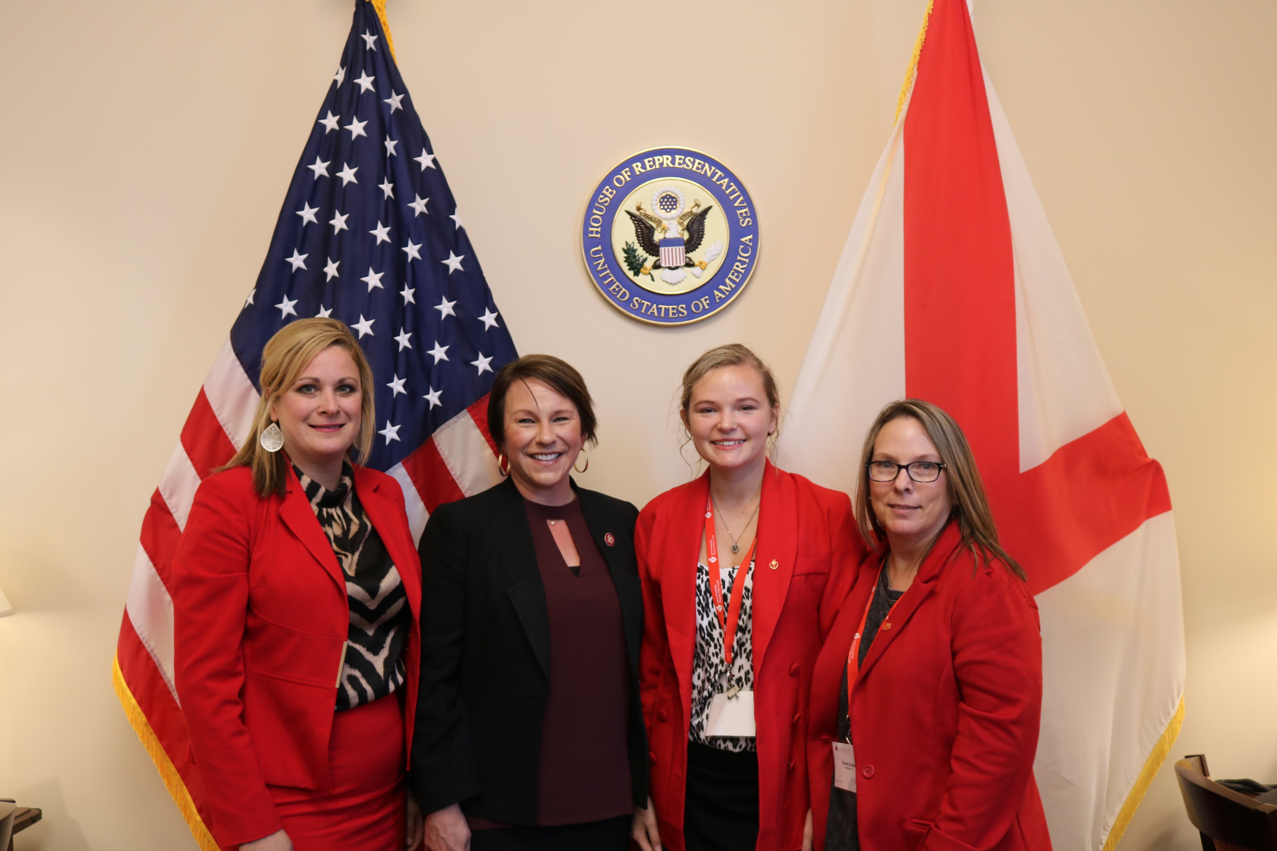 Martha Roby with American Heart Association representatives in Washington, D.C.